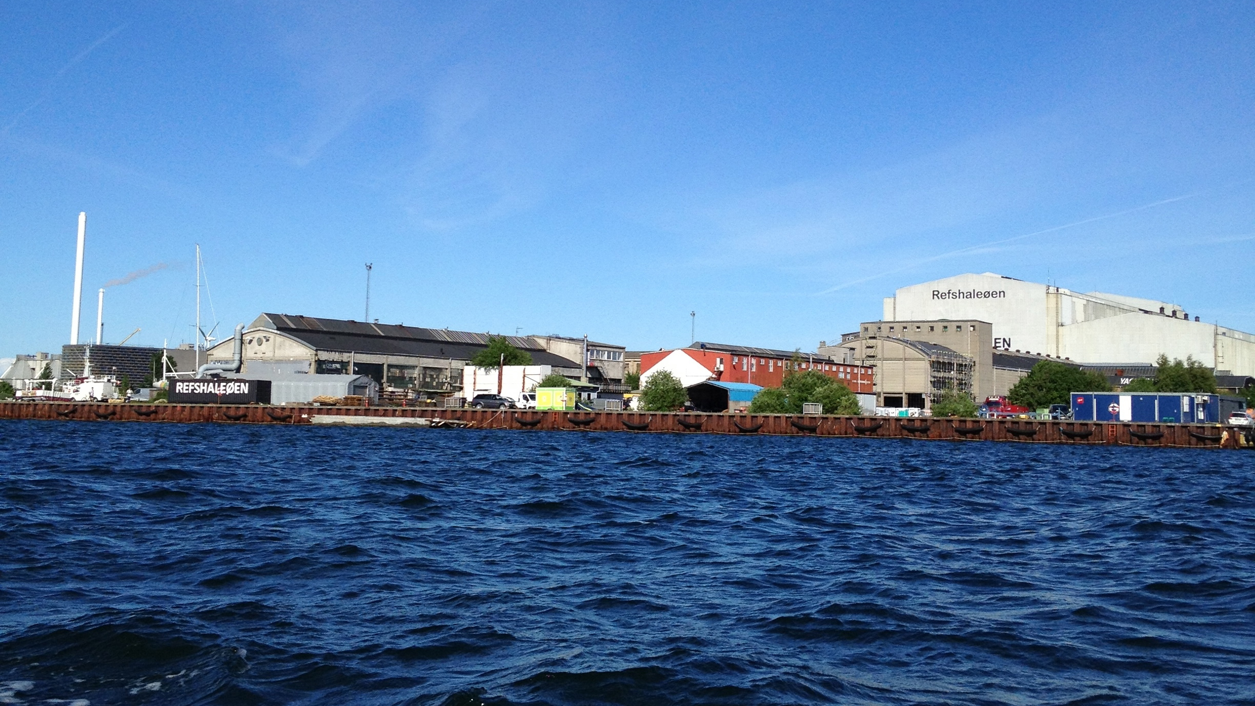 Viewed from a boat in the harbor. Loving the blue sky and the blue water. Summer is finally here.